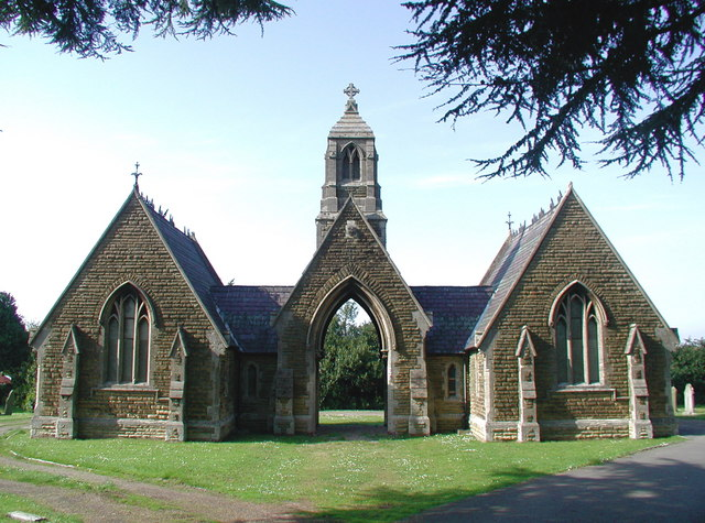 Barton Cemetery. The chapel of rest near the northwest corner of Barton-upon-Humber Cemetery, built in 1867.